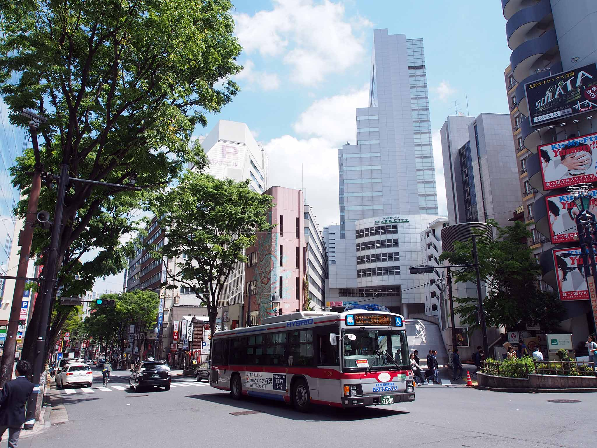 Tokyu Bus Seijo Line (Shibuya 24 Route) at Dogenzaka. Model: Isuzu Erga Hybrid (1st) QQG-LV234L3 License plate: TKS200 KA2690